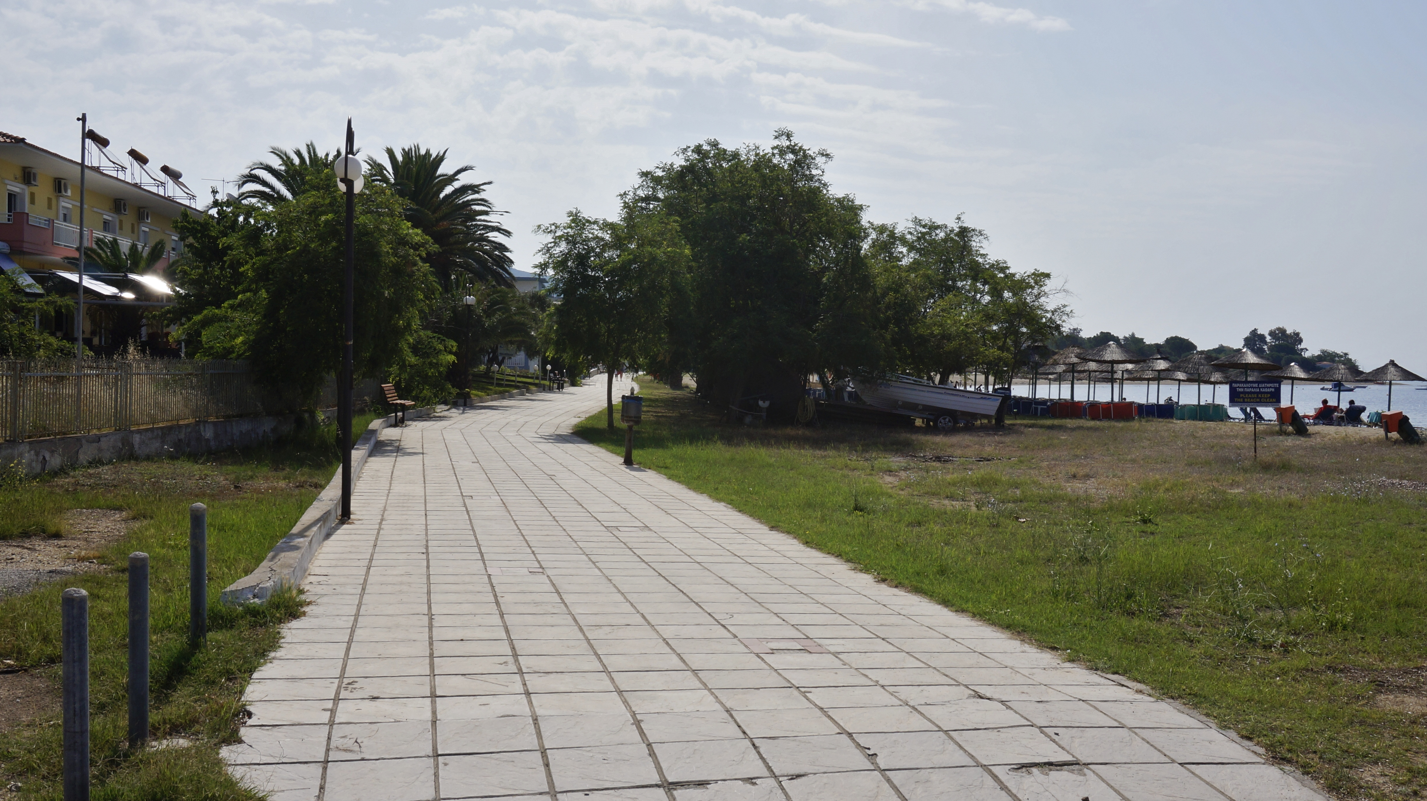 Yerakini part of the seaside pedestrian walk on the central beach, as seen from west, Chalkidiki, Central Macedonia, Greece, Jun 2014